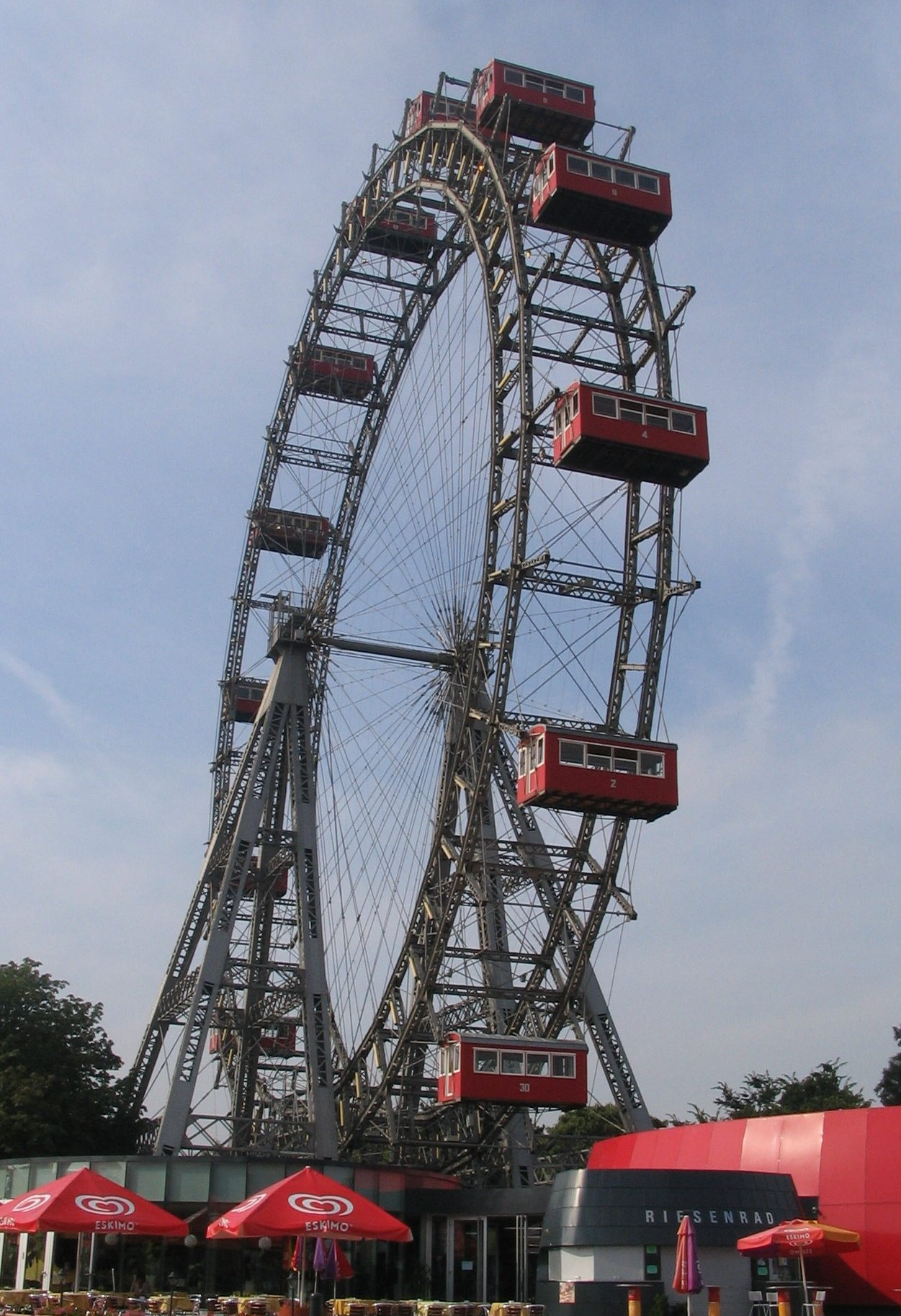 Austria, Vienna, Prater, Wiener Riesenrad